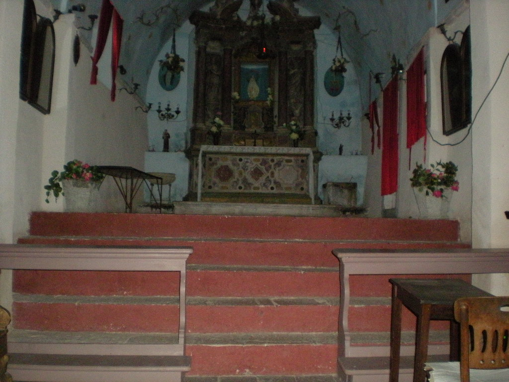 Interior of orthodox Church of Our Lady of Remedy in Kotor.